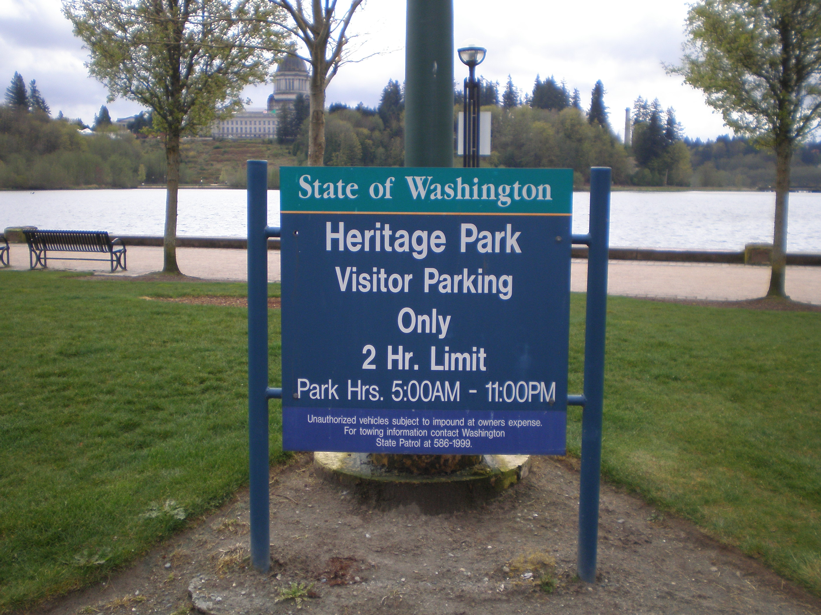 Sign for Heritage Park in Olympia, Washington. Capitol Lake and the Washington State Capitol building are seen in the background.